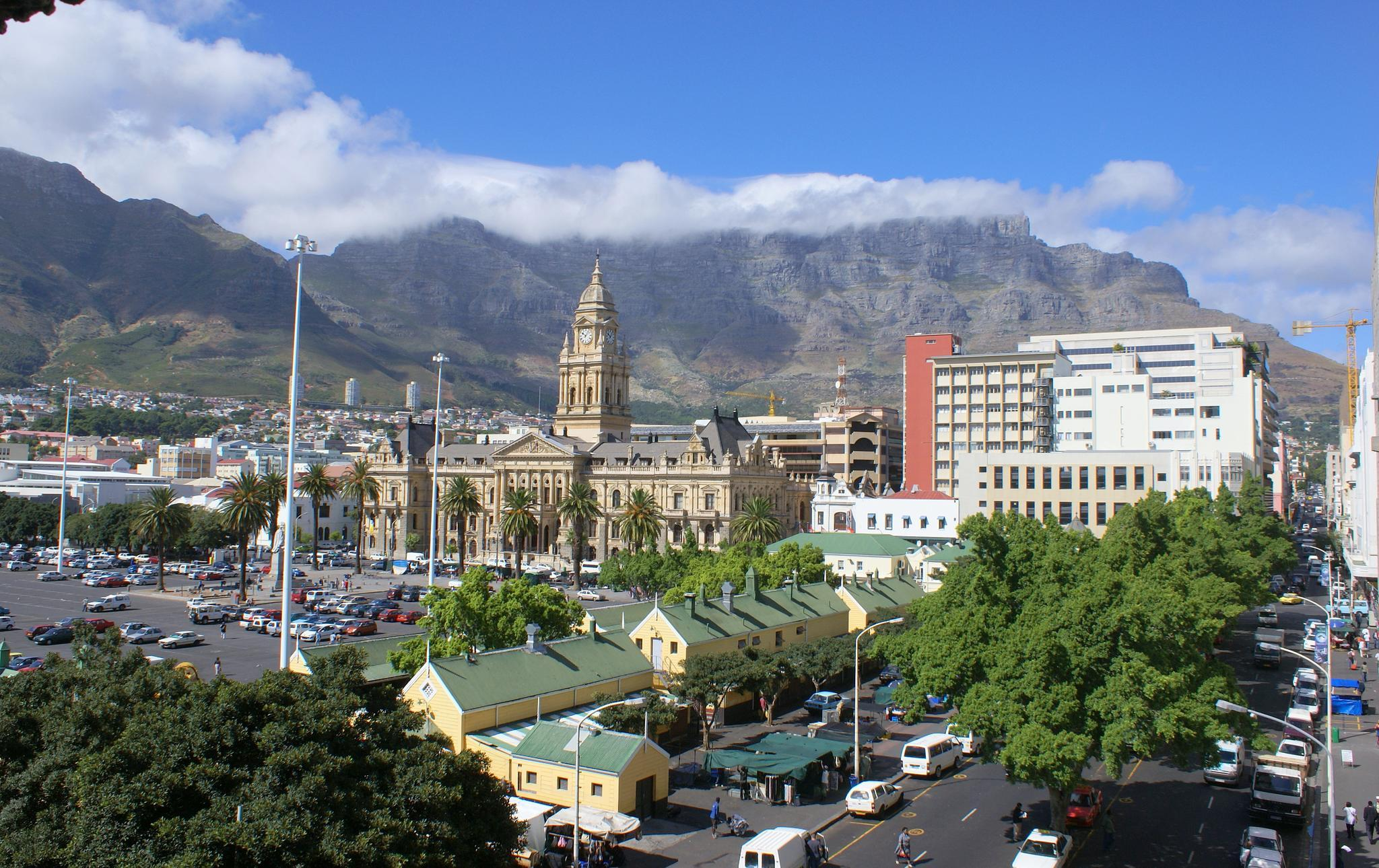 The Grand Parade and Cape Town City Hall, with Table Mountain and its characteristic tablecloth in the background.